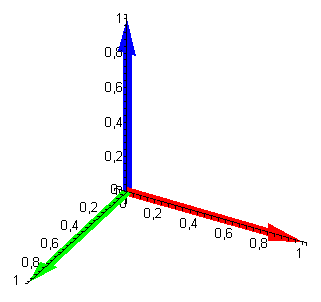 The vectors {(1,0,0), (0,1,0), (0,0,1)} form an orthonormal basis of 3D space.